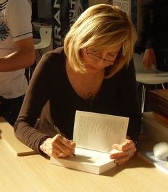 Turkish writer Ayse Kulin at 2011 Diyarbakir Book Fair.